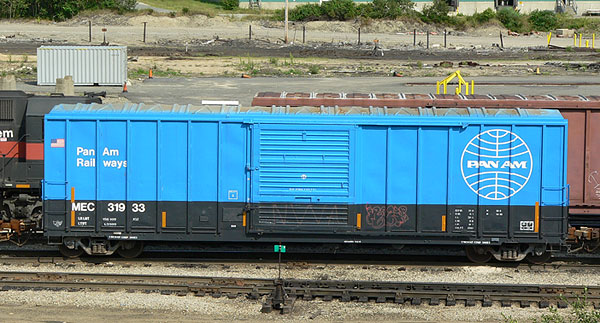 Pan Am Railways MEC 31933 boxcar at Rigby Yard in South Portland, Maine.